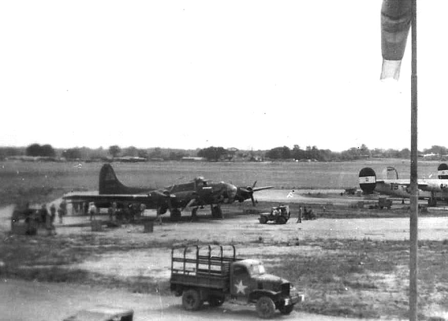 B-17G-65-BO #43-37516 "Tondelayo" 492nd BG - 858th BS Painted all black and used for Night Leaflet missions. Photo taken at Attlebridge, home of the 466th BG